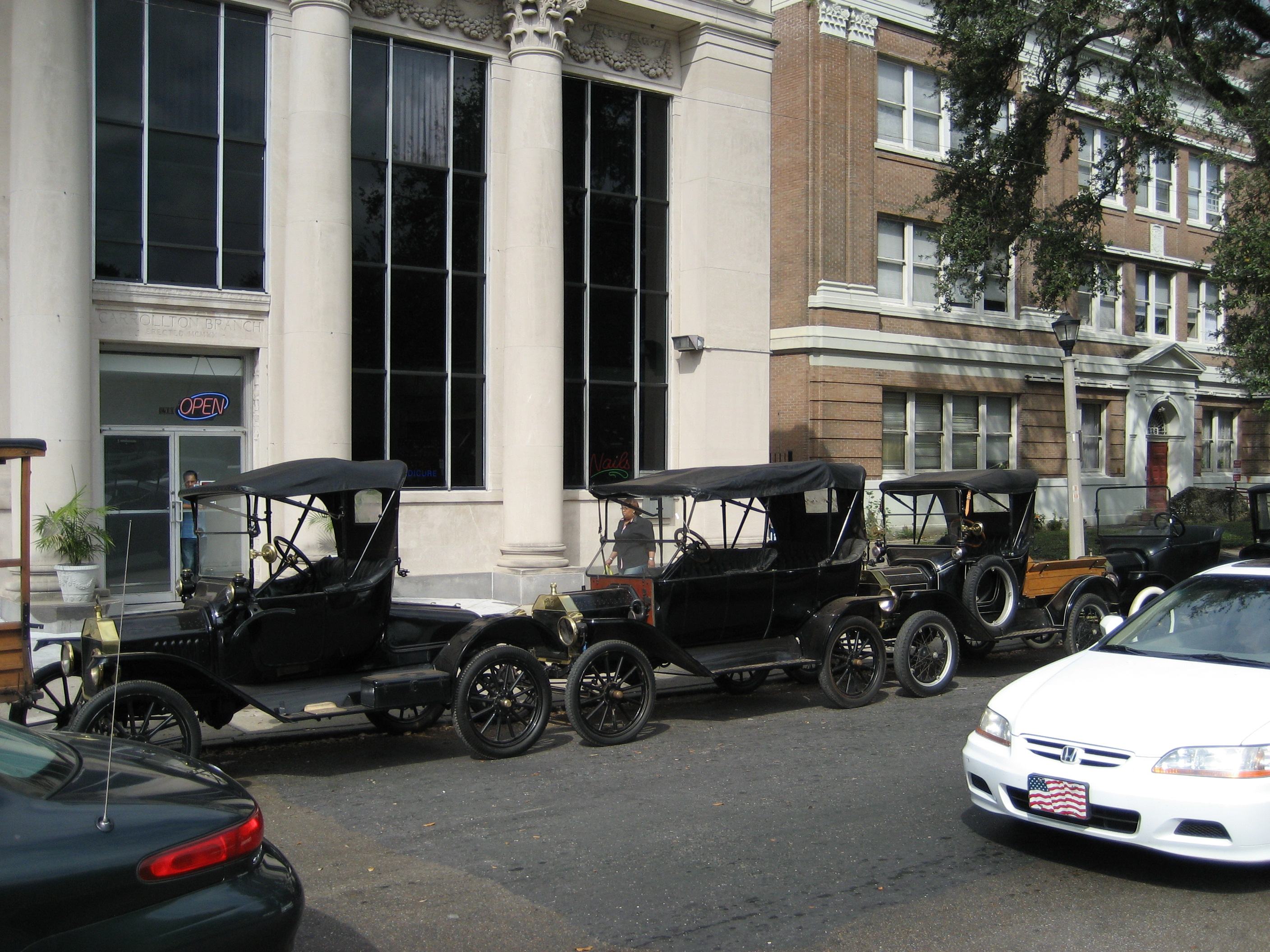 Old Fords along curb behind modern traffic. Vintage cars lined up for filming of movie scene (presumably set in 1920s or late 1910s). Carrollton neighborhood, New Orleans.